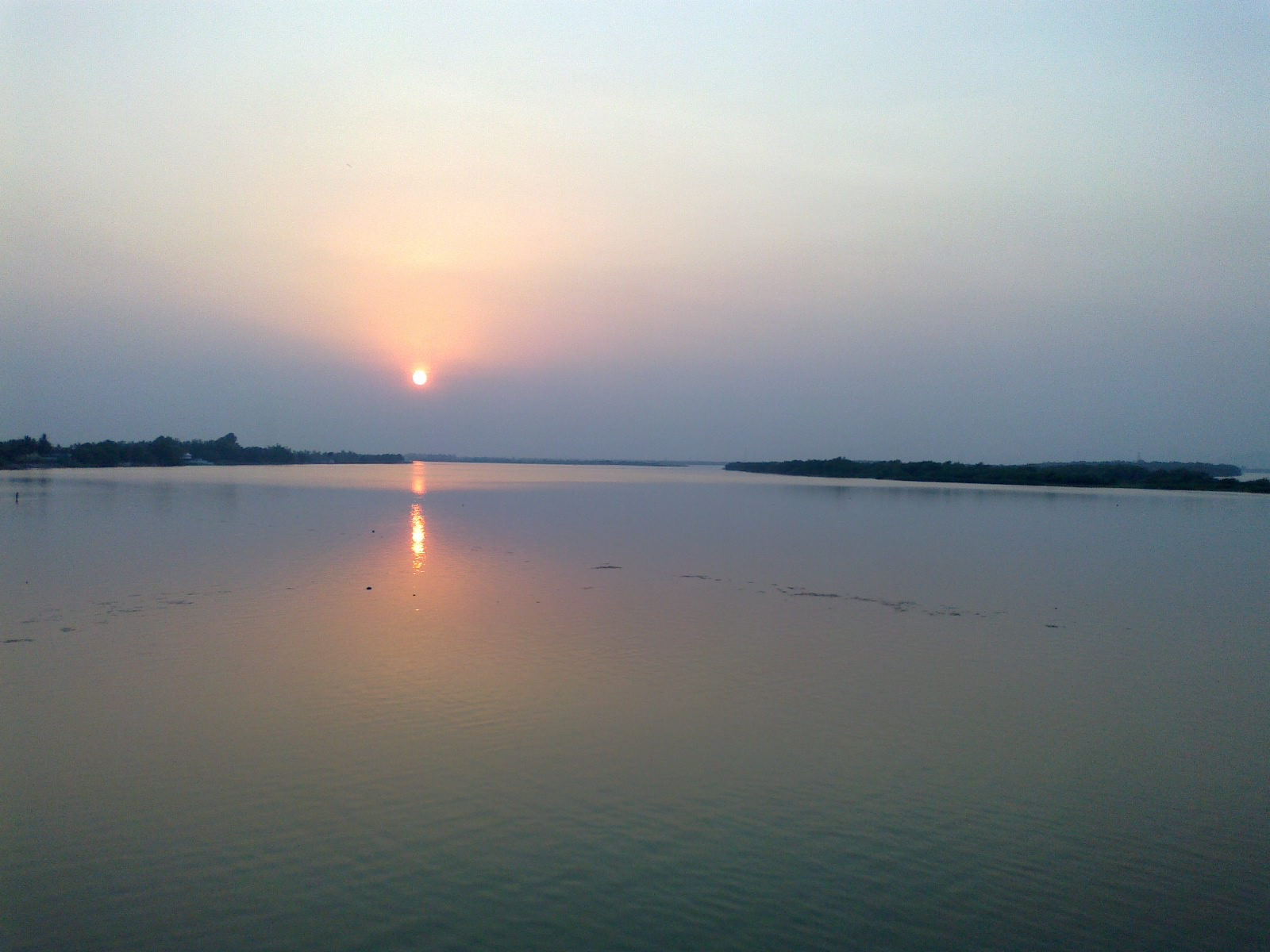 sunset at vijayawada